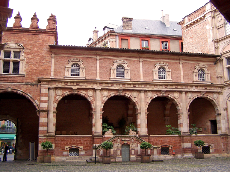 Fondation Bemberg's entrance in Toulouse (France)